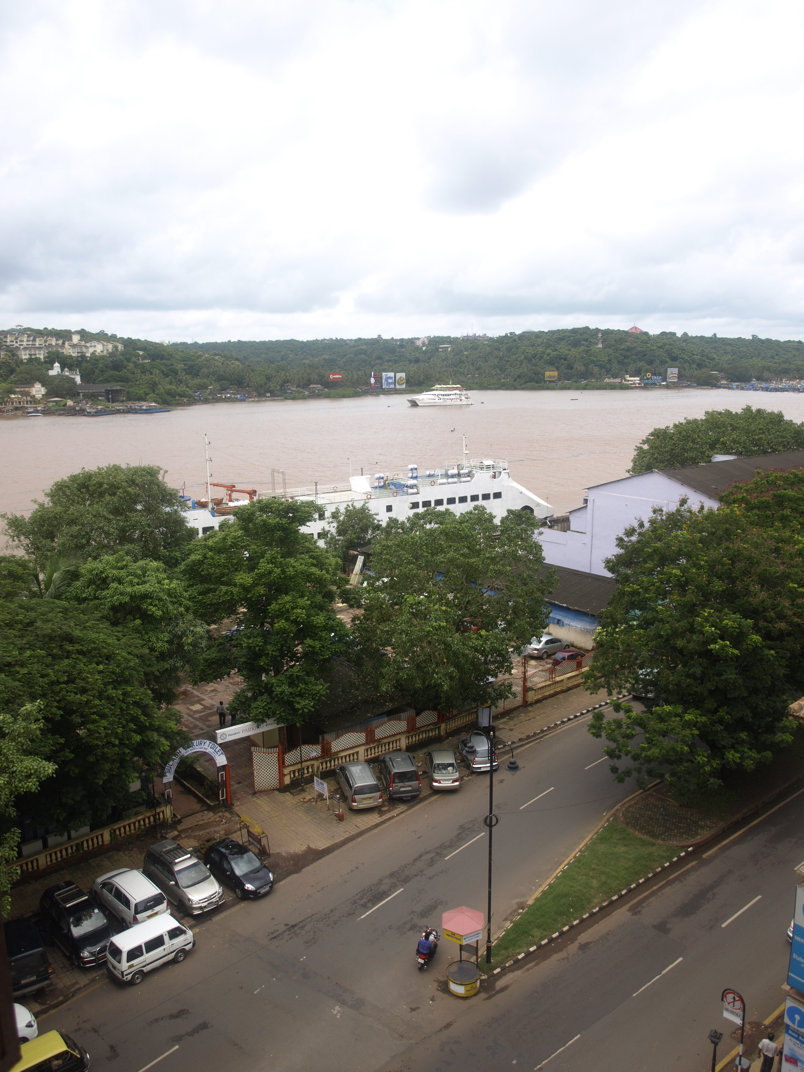 Scenes of Panjim (Panaji), capital of Goa, India. Hotel Mandovi area.